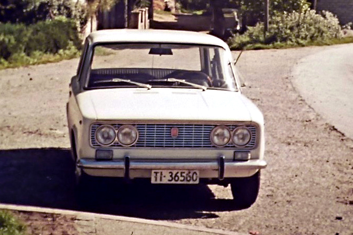 A Fiat 124 S in Malvaglia, near Ticino (Switzerland) in around 1972.